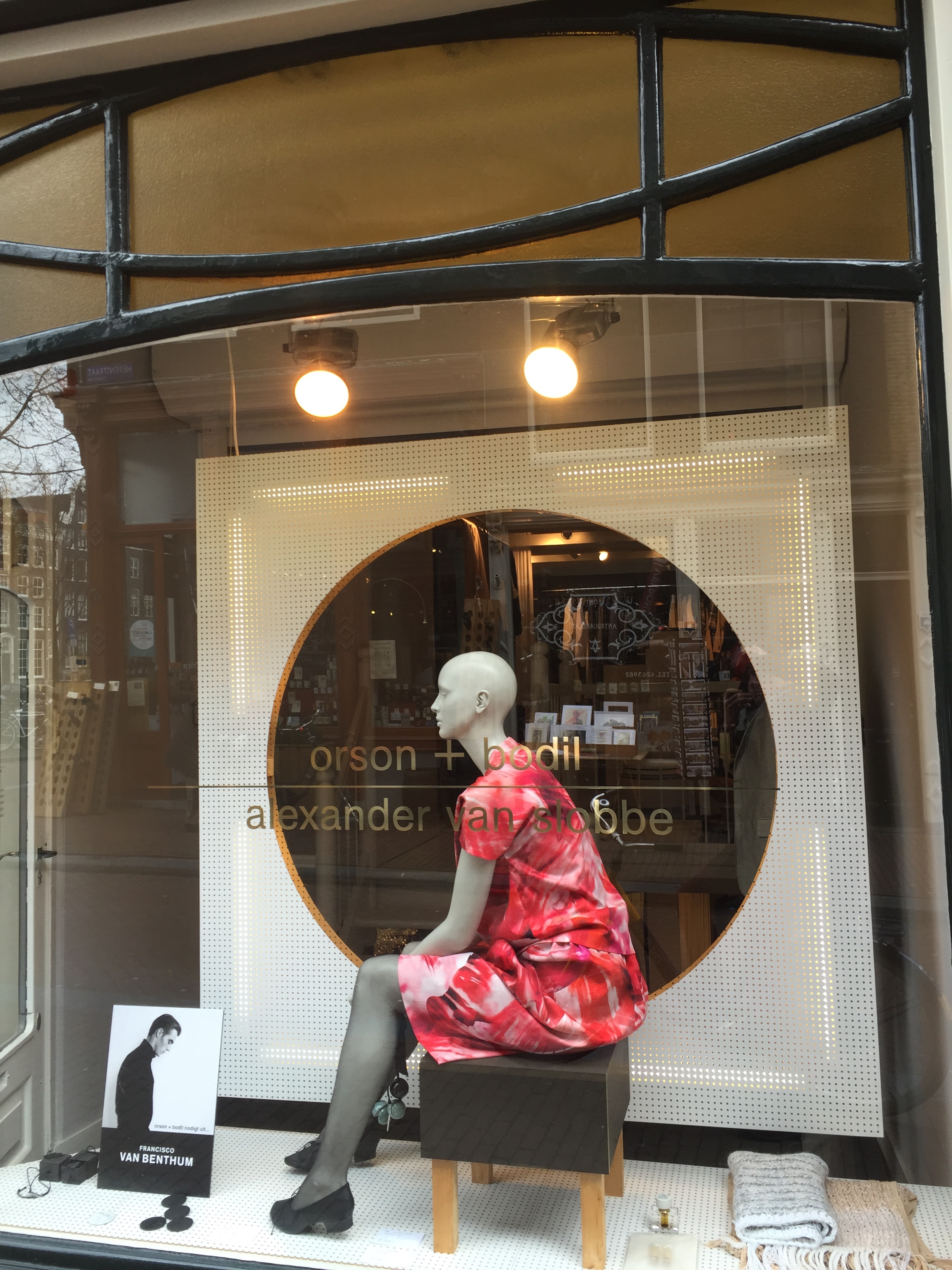 Shop Orson Bodil (Alexander van Slobbe) Herenstraat in Amsterdam.